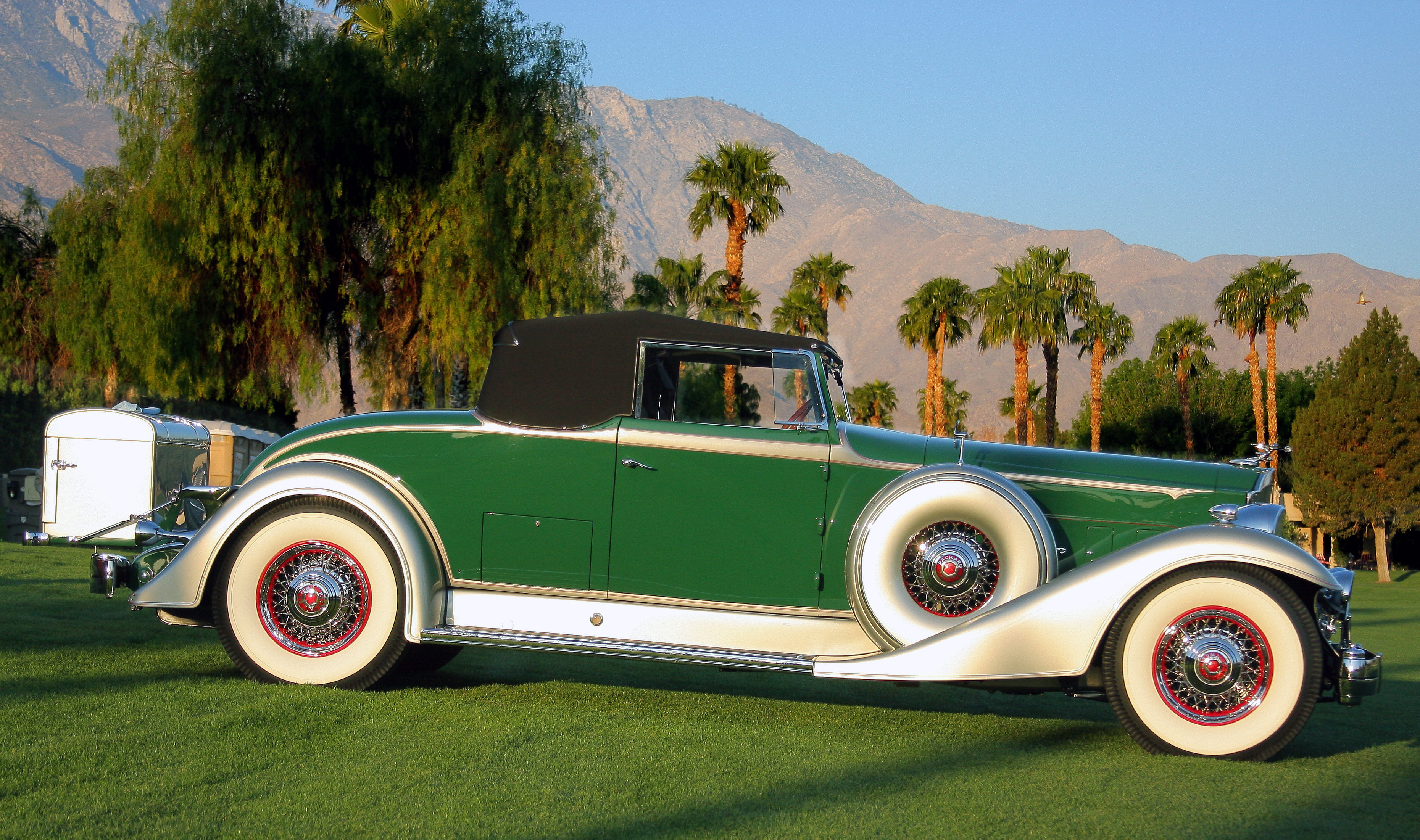 2014 Desert Classic Concours d'Elegance, Palm Springs, CA